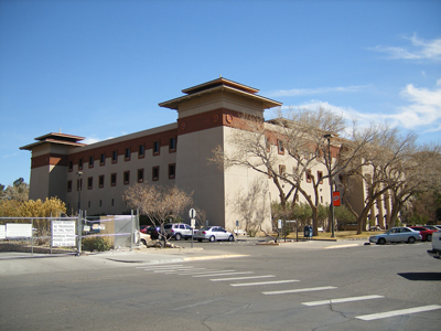 Library of the University of Texas at El Paso. Designed in the Bhutanese Dzong architecture style.